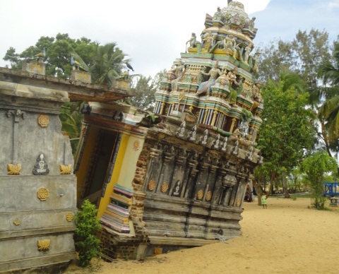 Thiruchenthur Kovil in Batticaloa, Sri Lanka සිංහල: 2004 සුනාමියේ ස්මාරකයක් ලෙස සැලකෙන ශ්‍රී ලංකාවේ මඩකලපුවේ තිරුත්චෙන්තුර් කෝවිල